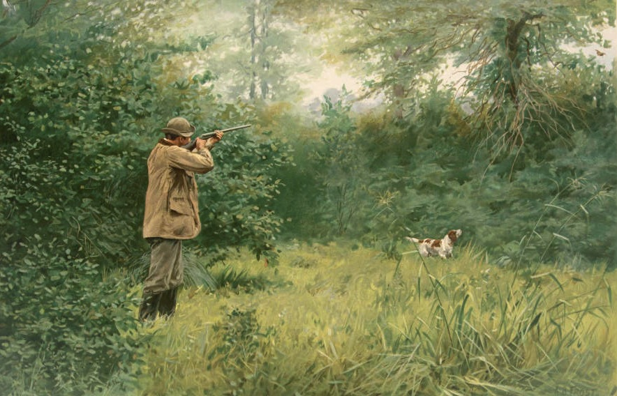 Print, color chromolithograph, "Summer Woodcock", from Shooting Pictures, by Scribner & Sons, 1895. Some of Frost's rarest prints are twelve chromolithographs from the portfolio entitled Shooting Pictures, by Scribner & Sons in 1895. This portfolio was originally issued by subscription, and was limited to 2500 copies. Various hunting scenes are depicted. The picture is slightly cropped.